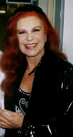 Milva, italian singer in 2005 own work